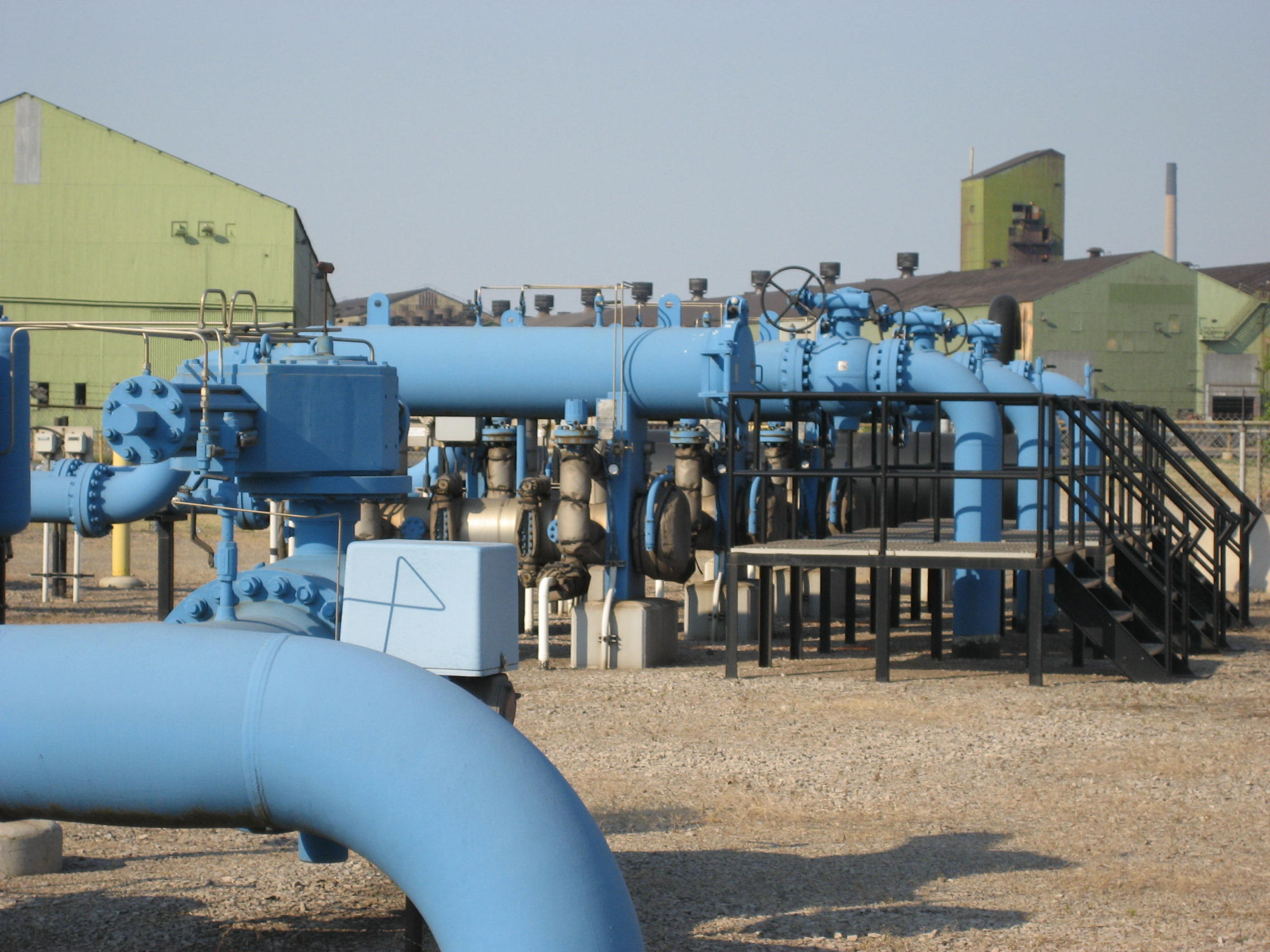 North End Industrial walking tour, Burlington Street, Hamilton, Ontario